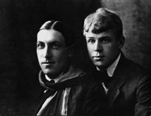 Russian poet Sergei Yesenin (1895-1925) (on right) and Russian writer Anatoly Marienhof (on left). 1915